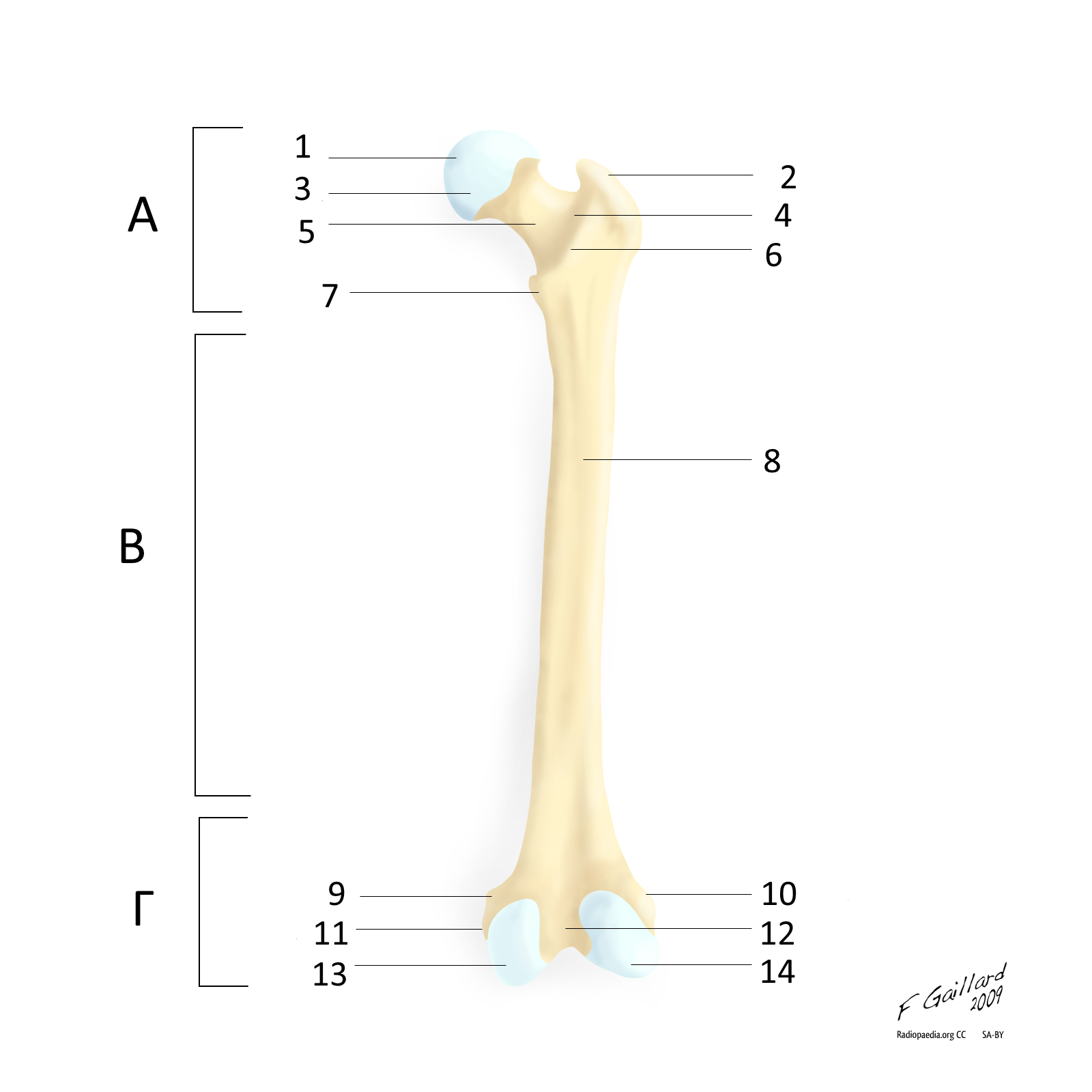 I replaced the words from the image with numbers so that I can translate them (Altick). For english go to the original file.